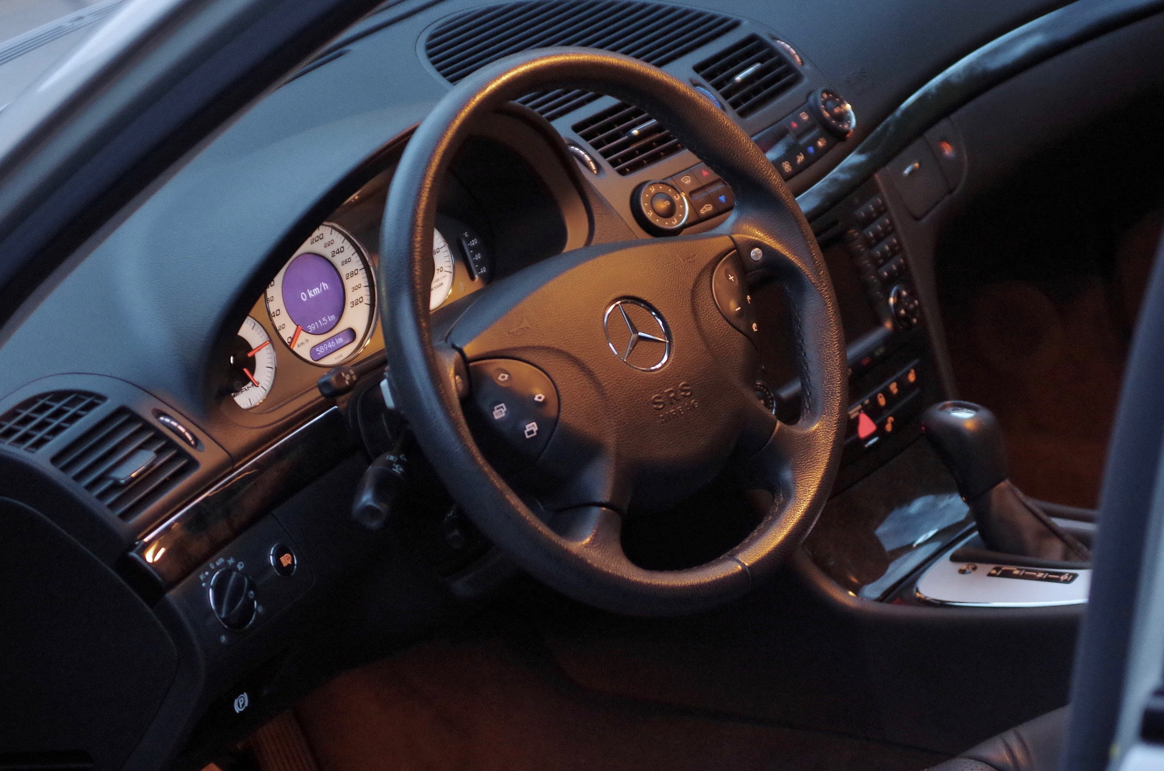 Interior of a 2004 E55 AMG